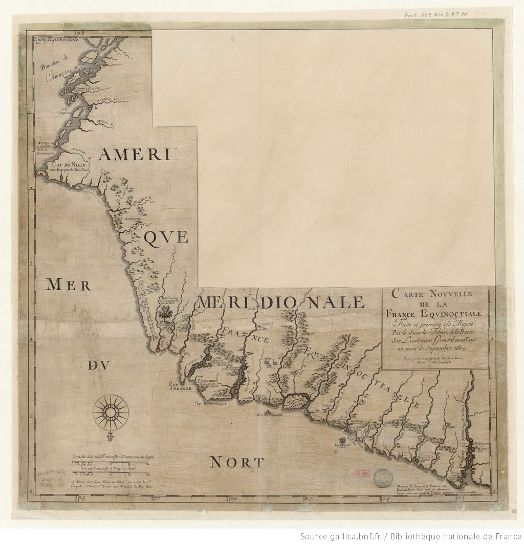 Map of France équinoctiale (French Guiana)